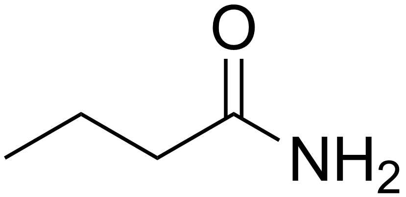 chemical structure of butyramide